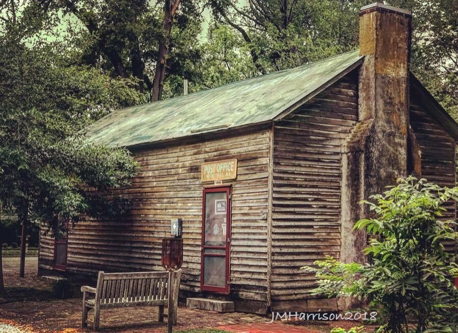 Mooresville, Alabama